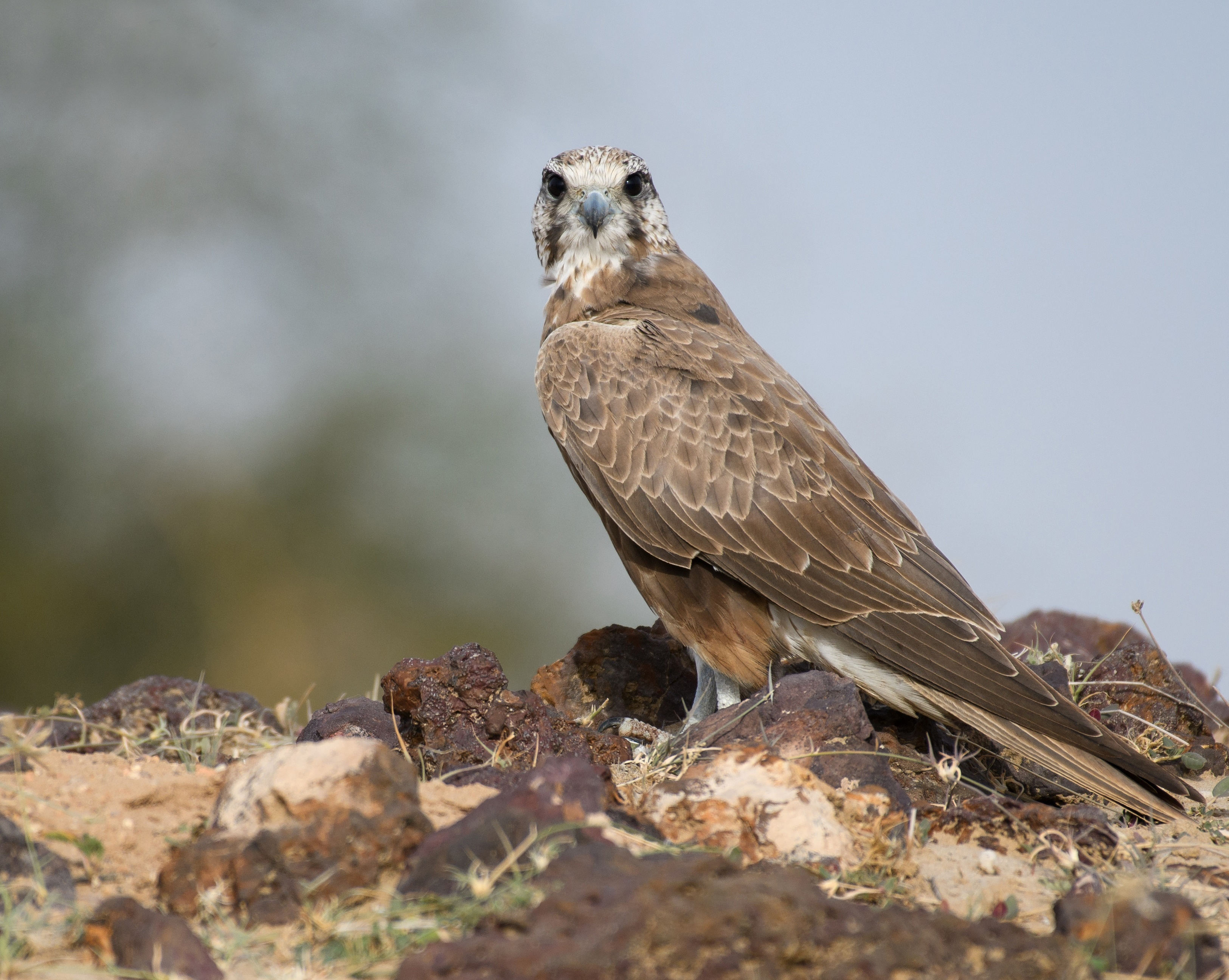 Classic juvenile of Laggar Falcon. Overall brown but hint of fresh moulted feathers on head and mantle.